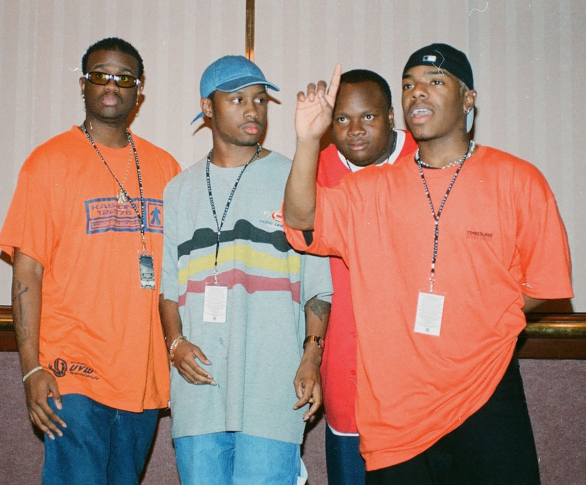 Baltimore base band that made it big ...here from 1996